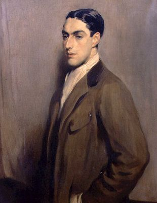 Portrait of Frank Meyer, c.1910 Wall Art & Canvas Prints by Glyn Warren Philpot